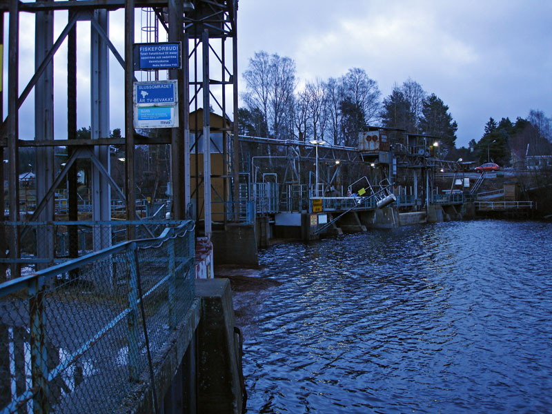 The sluice at the outlet of lake Veckefjärden in river Moälven between Hörnett and Svedjeholmen in Örnsköldsvik Municipality in Northern Sweden. The purpose of the sluice is to prevent sea water from flooding into Veckefjärden, from where sweet water is led to the industry Domsjö Fabriker.